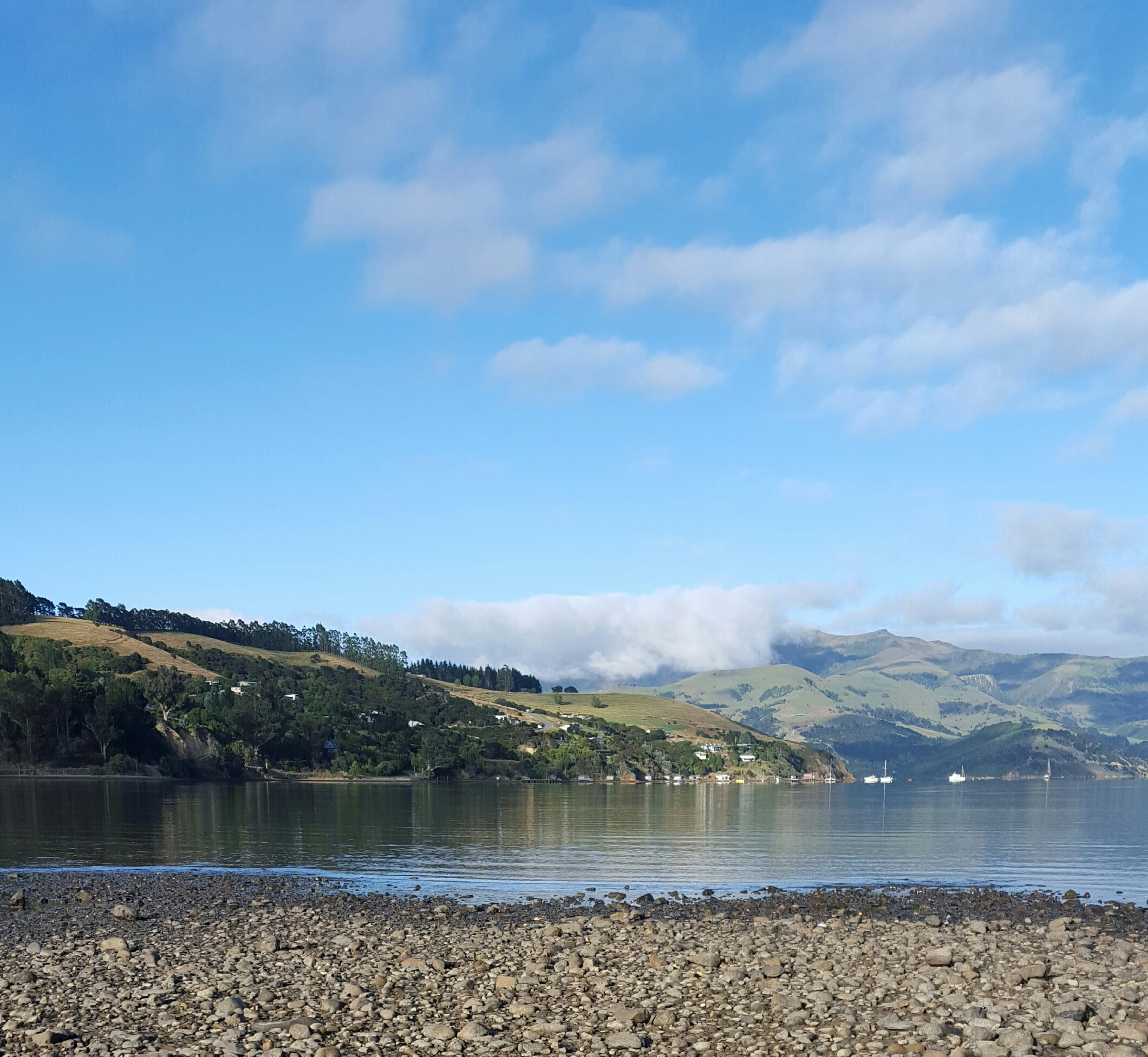 Looking out from Takamatua Bay toward Akaroa Harbour